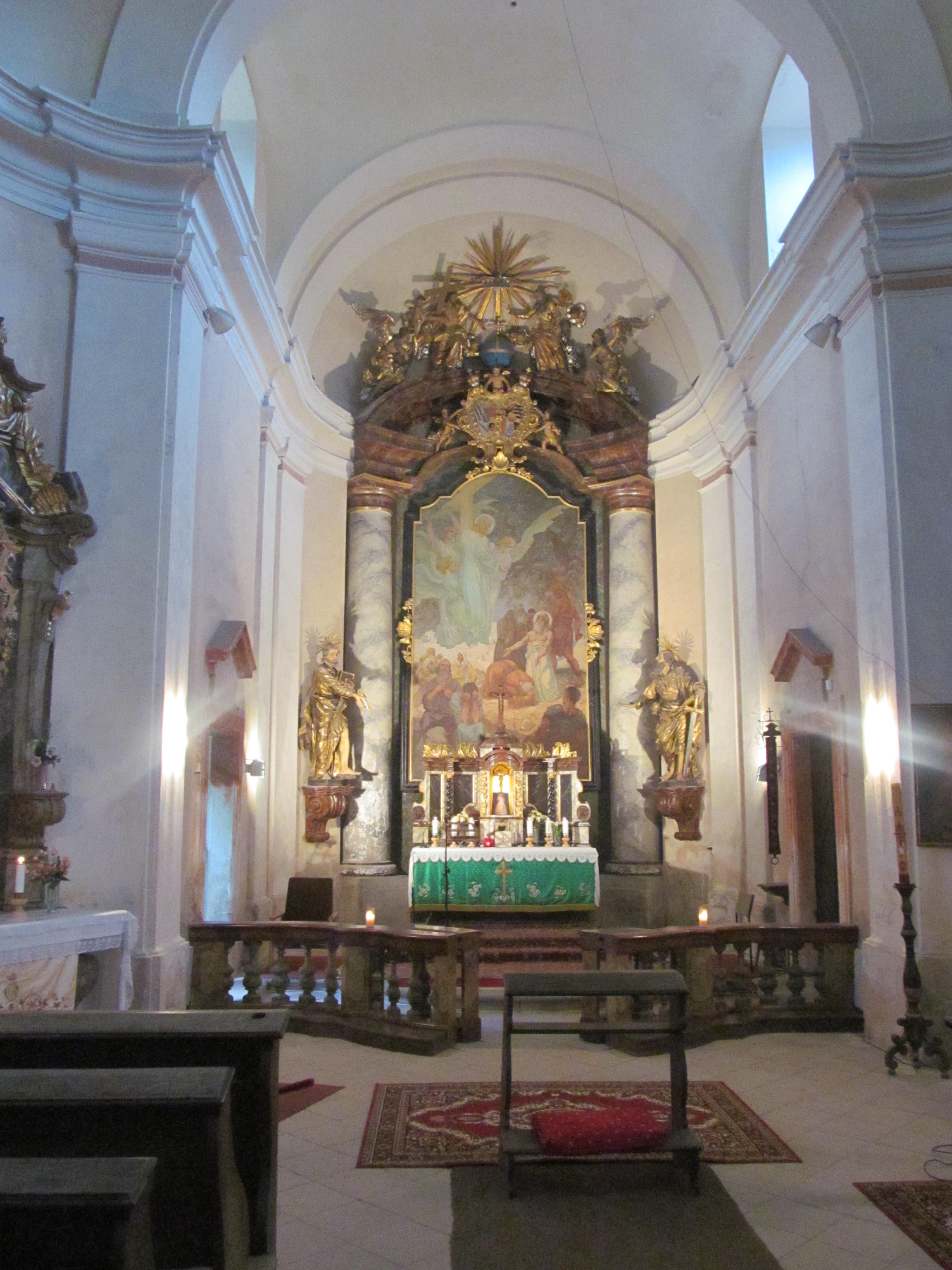 Interior of the church in Hřivice